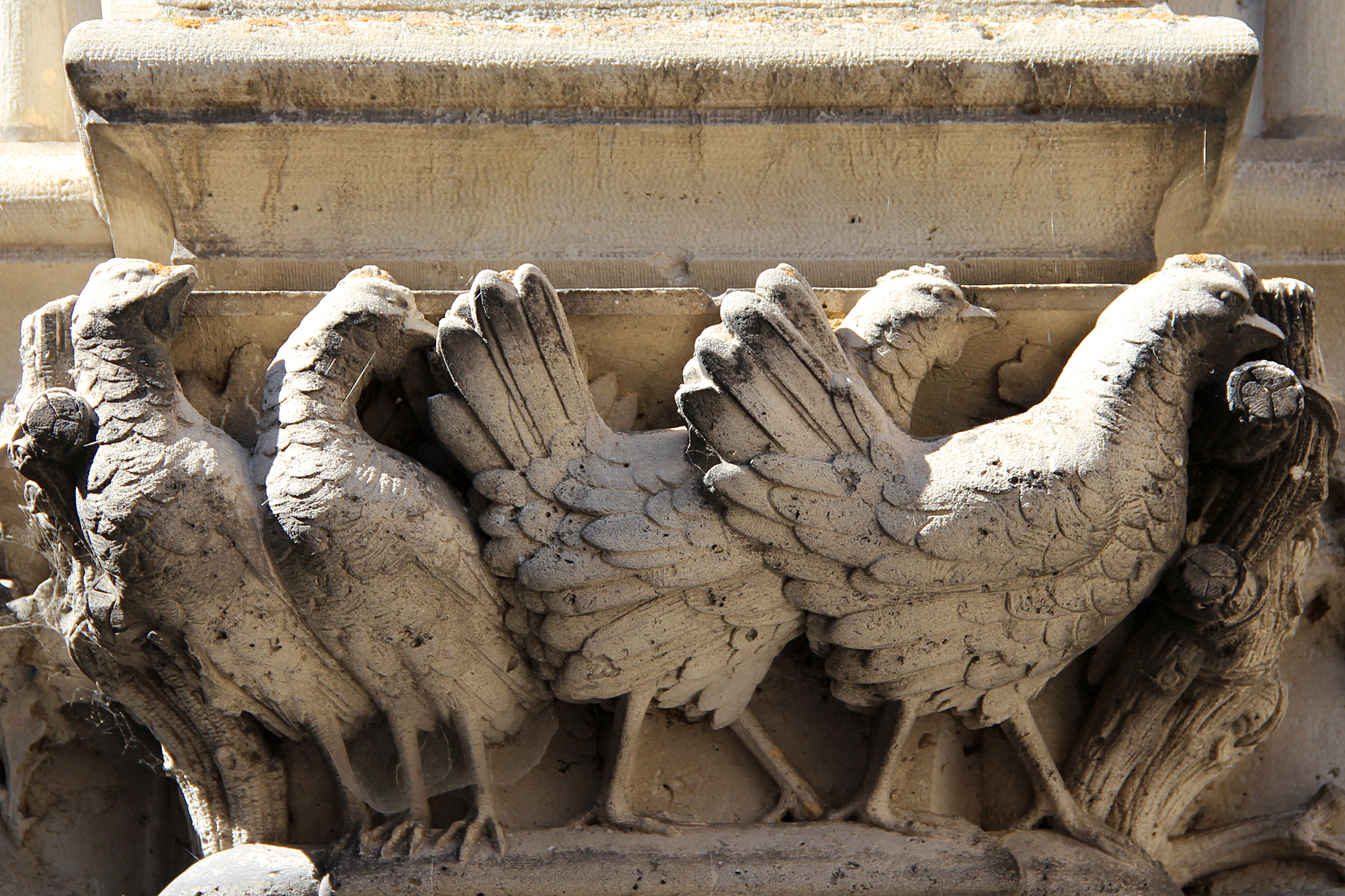 Historiated capital representing the hens of the Roman de Renart, in the covered gallery of the Pierrefonds Castle (Oise, France